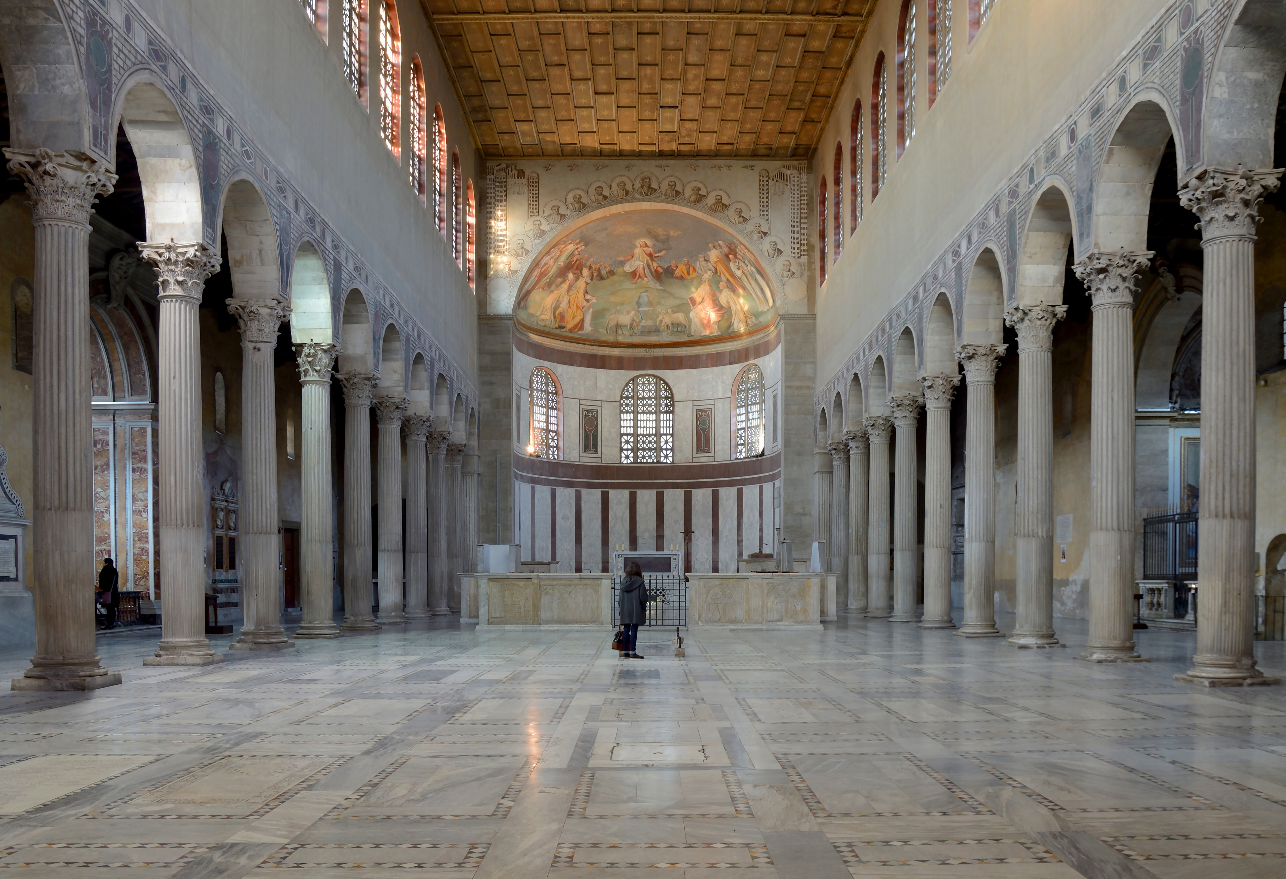 Santa Sabina (Rome) - Interior